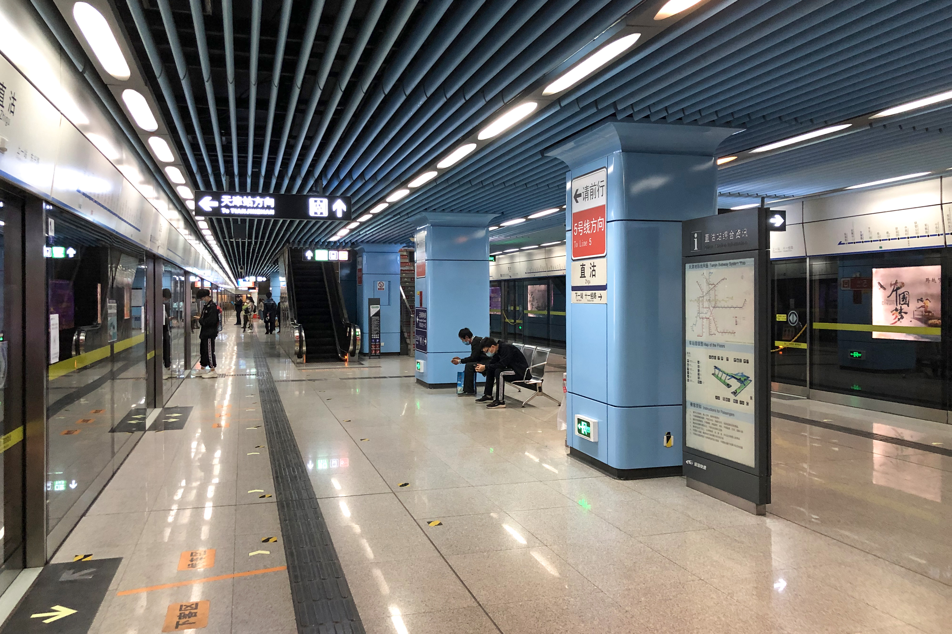 BMT stations are older...